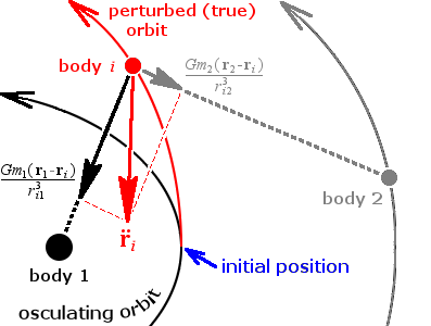 Vector diagram of Cowell's method of perturbation analysis, depicting forces on a perturbed object by two other objects.